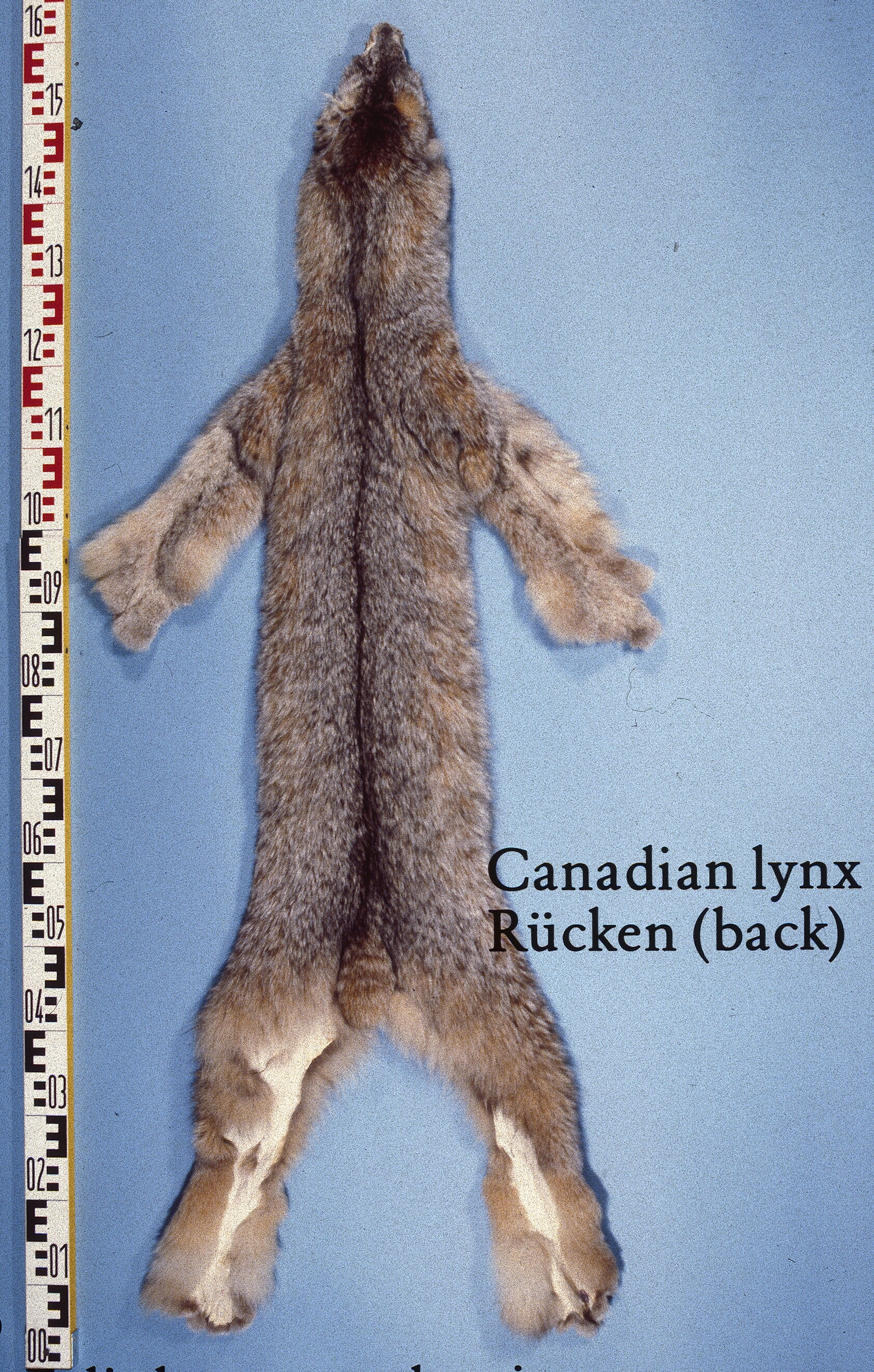 Canadian lynx (Lynx canadensis), backside. Fur skin collection, Bundes-Pelzfachschule, Frankfurt/Main, Germany